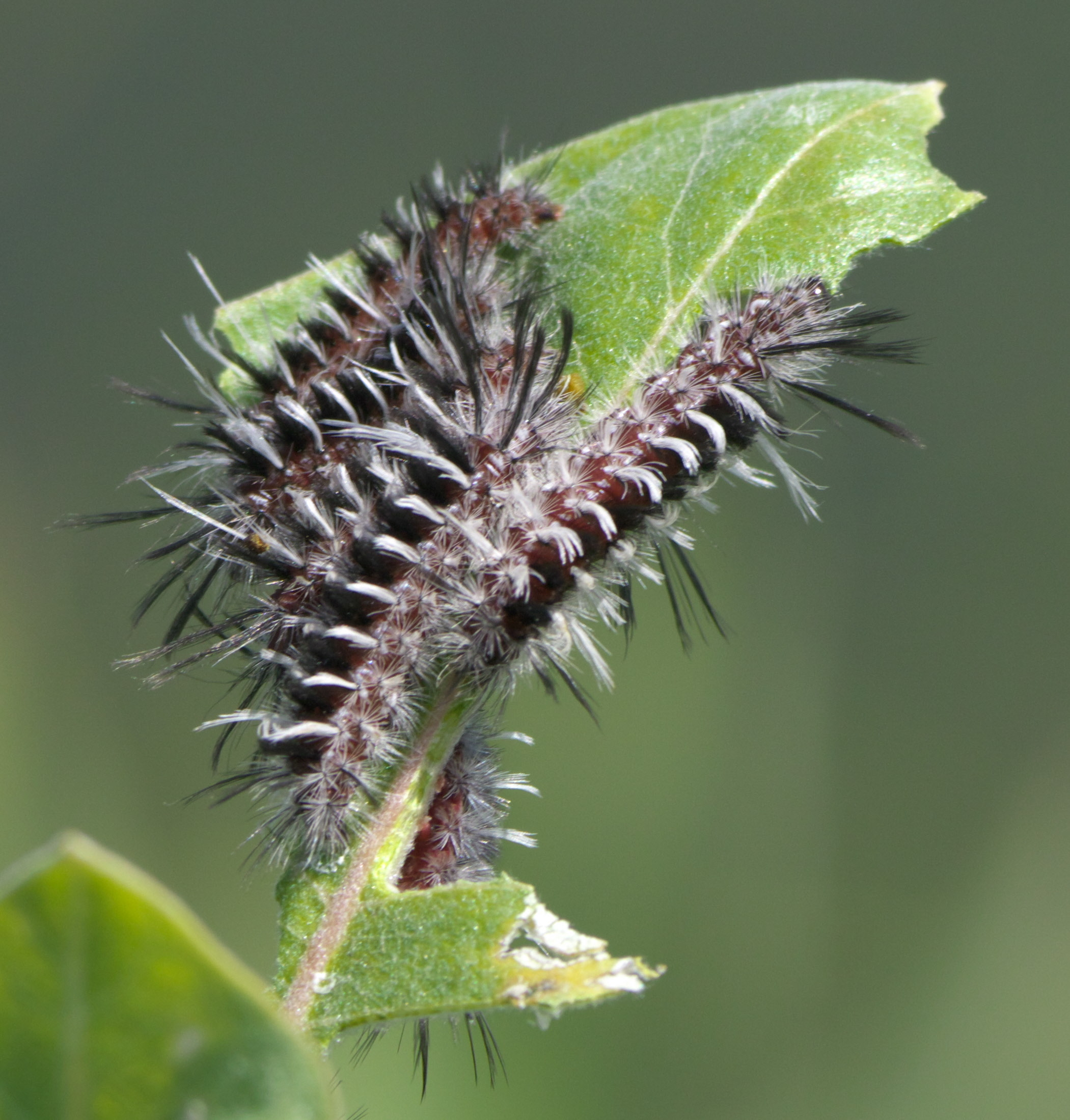 Pygoctenucha terminalis, Hodges #8244, Or maybe Euchaetes., ID Confidence: 80